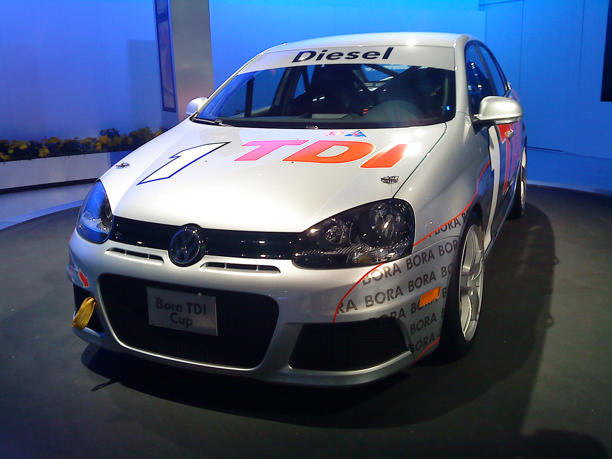 Volkswagen Jetta V TDI Cup at the 2008 SIAM.